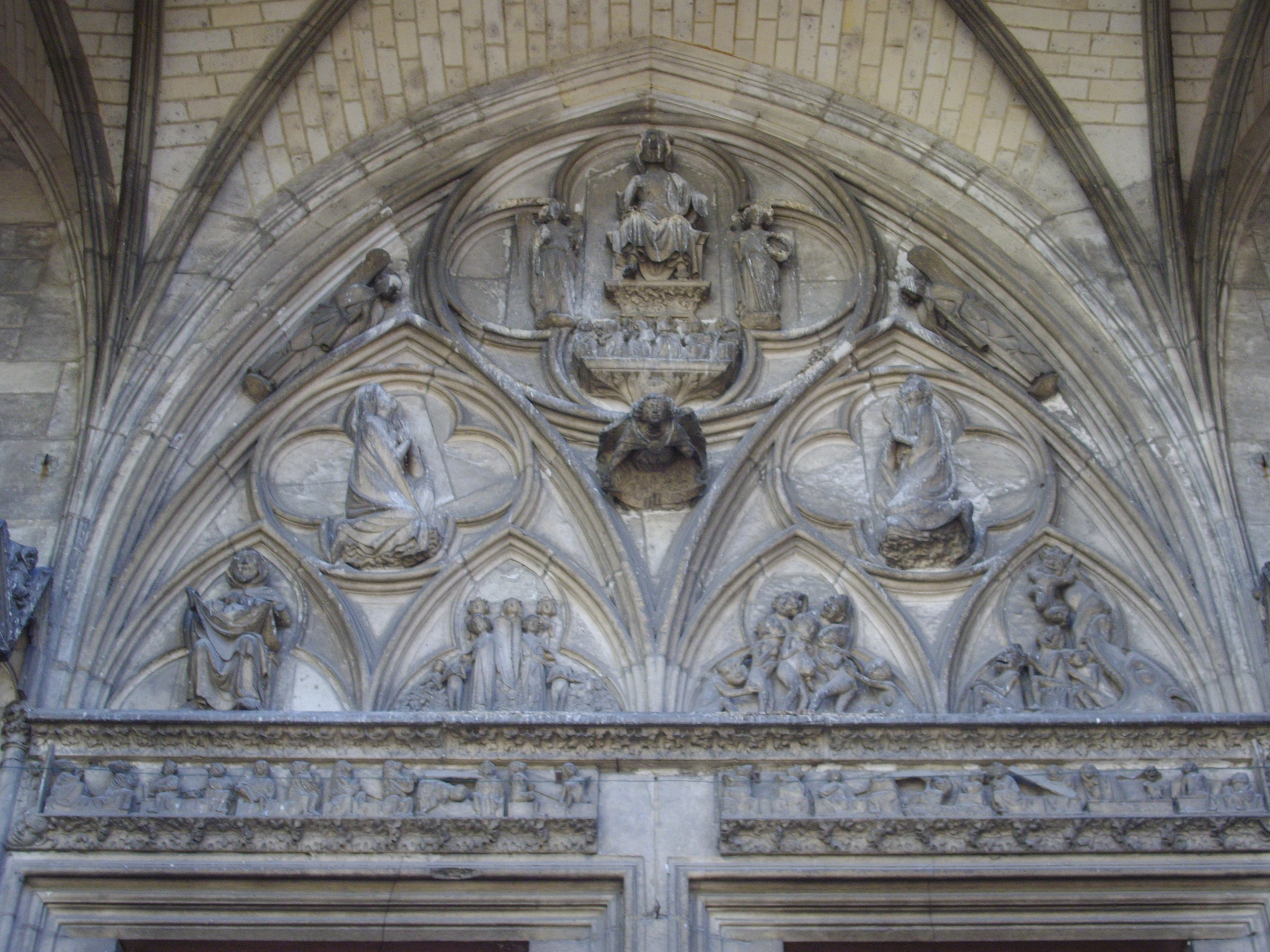 Saint Urban basilica of Troyes (Aube, France) : tympanum of western portal .